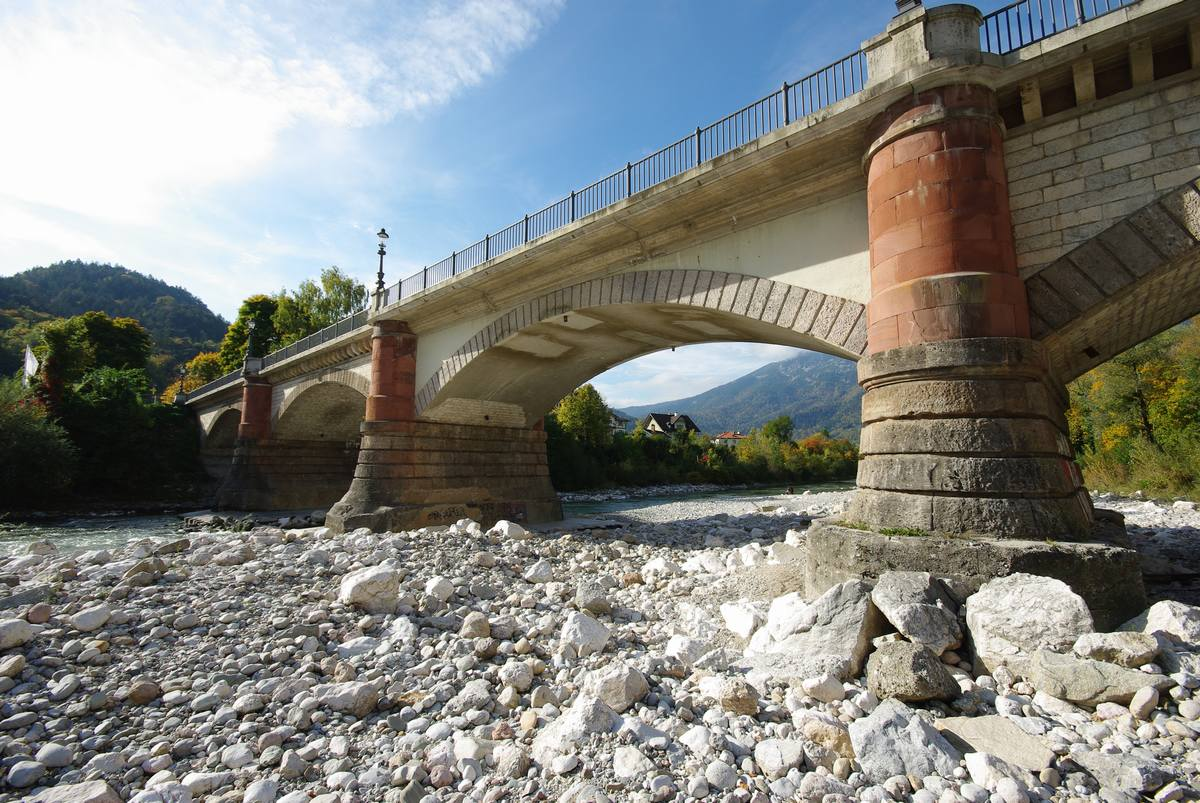 Luitpoldbrücke in 83435 Bad Reichenhall, Blickrichtung WestenThis is a photograph of an architectural monument.